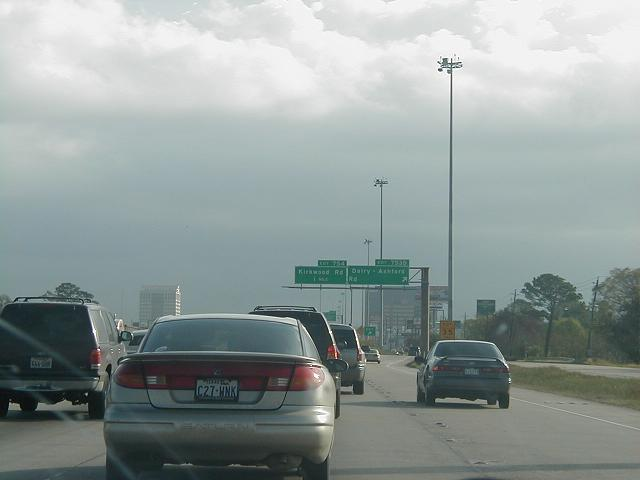 I-10 Exit 753 in Houston, Texas